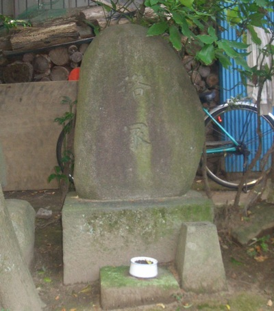 Mujina-duka, Kenshōji, Katsushika, Tokyo, Japan